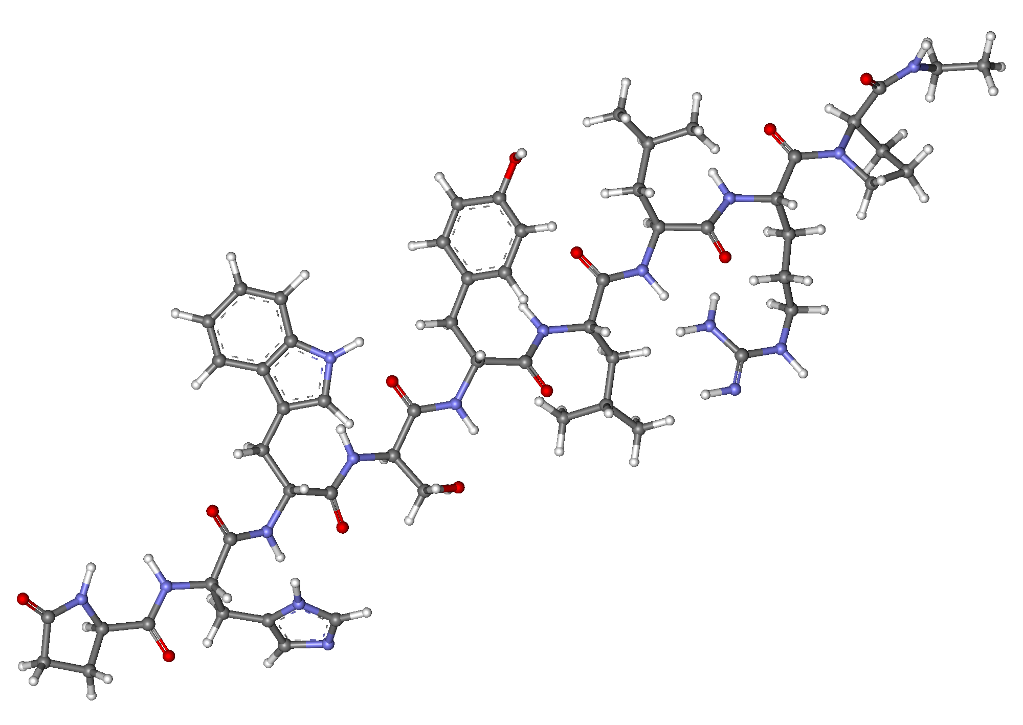 Ball-and-stick model of leuprorelin molecule. The structure is taken from KEGG. D08113